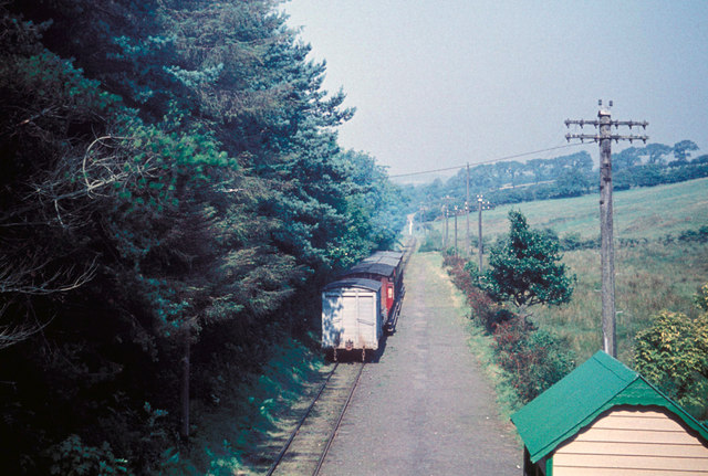 Isle of Man Railway, Braddan This is taken looking northwards from Braddan Bridge. A train for Ramsey or Peel recedes from the camera. The railway here closed many years ago and the track was lifted.